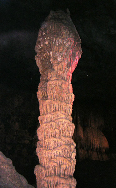 Picture of the "War Club" stalagmite at Lost World Caverns near Lewisburg, West Virginia, on September 10, 2008. The tour pamphlet says, "This stalagmite is approximately 500,000 years old and stands 28 feet tall with a base diameter of 2.5 feet and a top diameter of 4 feet. In 1971, Bob Addis, of Parkersburg, West Virginia, secured a platform with ropes to the top of the War Club and began a 15 day, 23 hour and 22 minute stay on top, setting a Guinness World Record for 'Stalagmite Sitting'!"